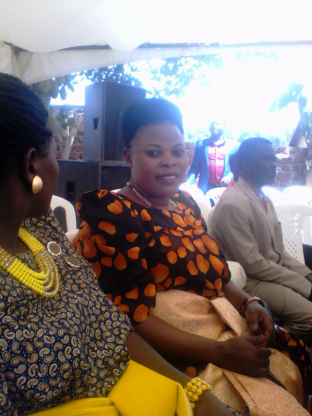 This is Rebecca dressed in kiganda culture.